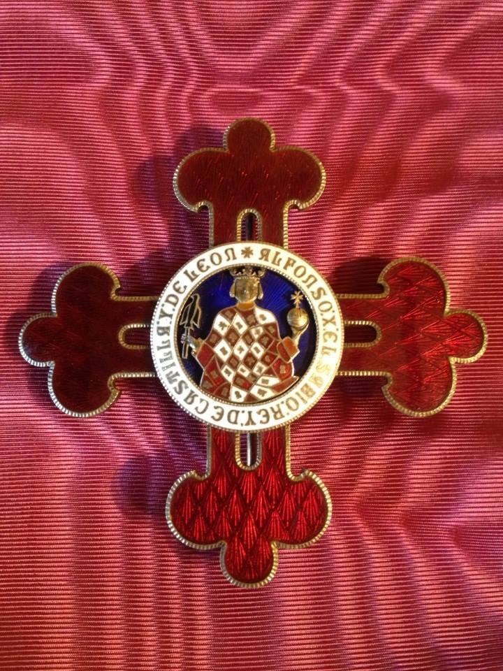 Picture taken personally by me (iPhone) belonging to the De Miquel family collection, Order of Alfonso X el Sabio